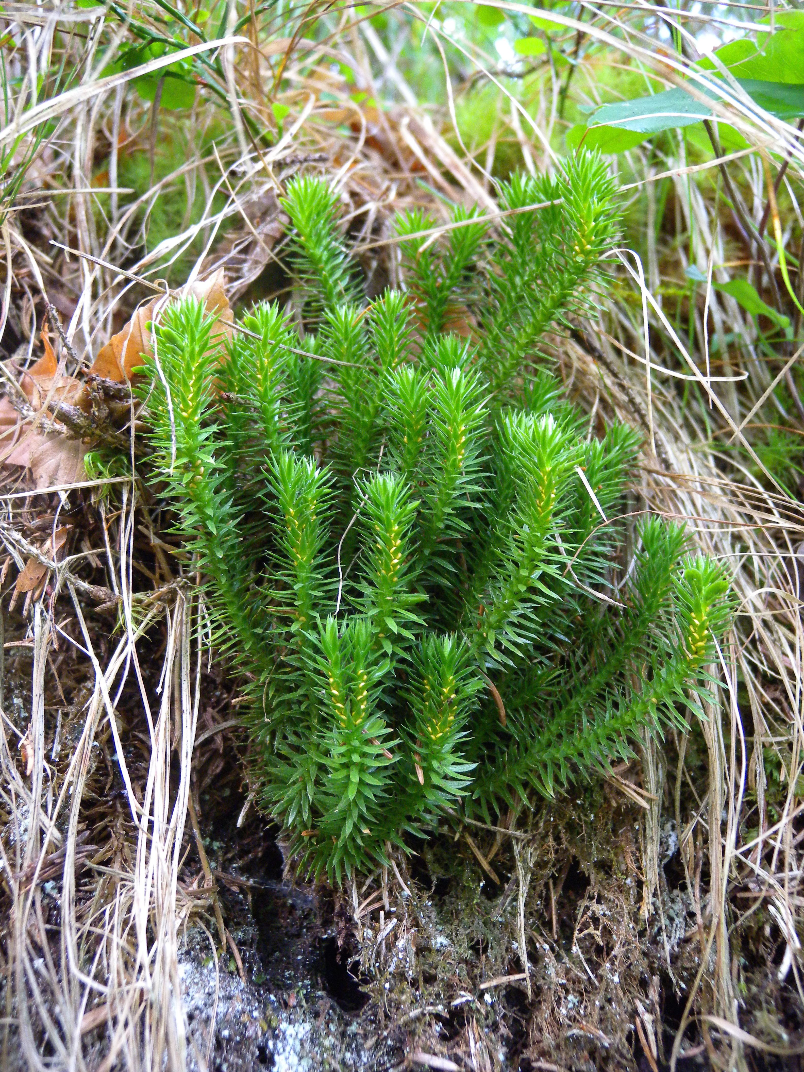 Huperzia selago (Lycopodiaceae); Suldgrabe, Aeschi bei Spiez, Canton of Bern, Switzerland